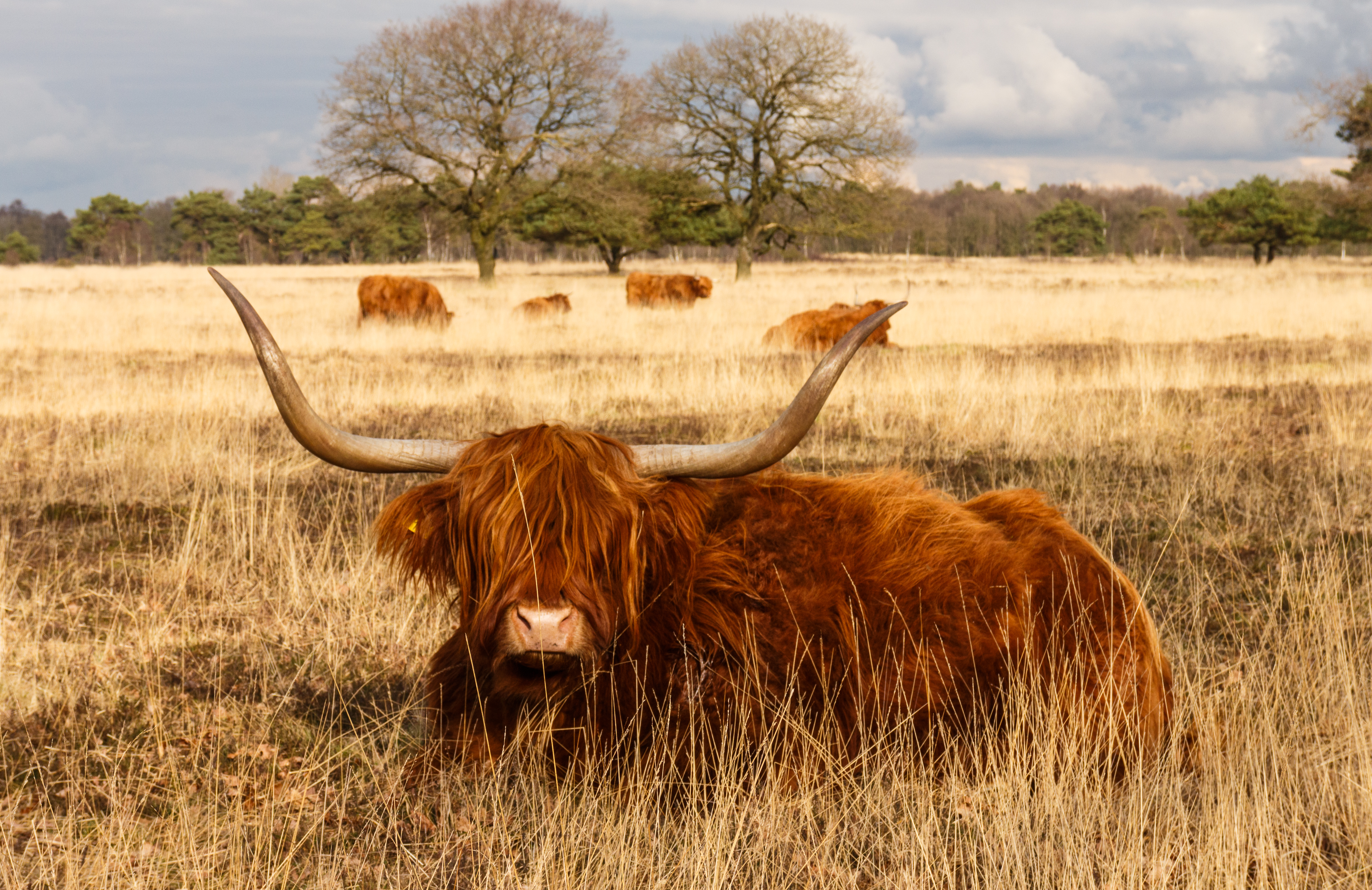 Delleboersterheide – Catspoele Nature of It Fryske Gea in the Netherlands. Around the heath.